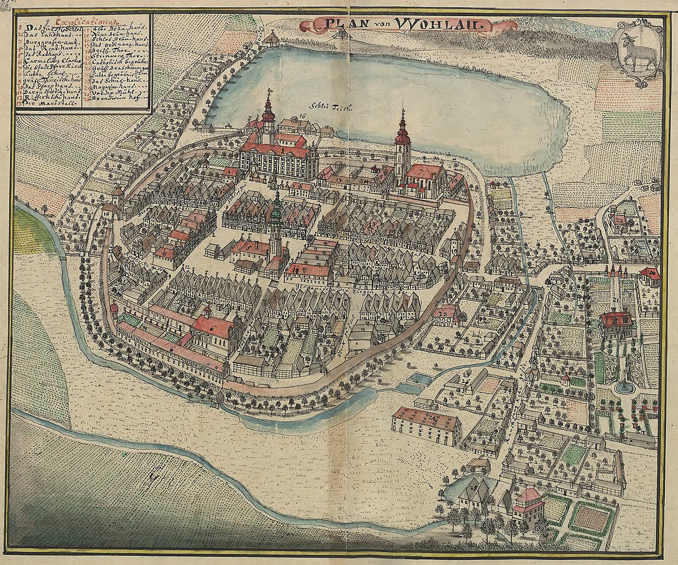 Town of Wołów (Wohlau) in Silesia around 1750, by Friedrich Bernhard Werner